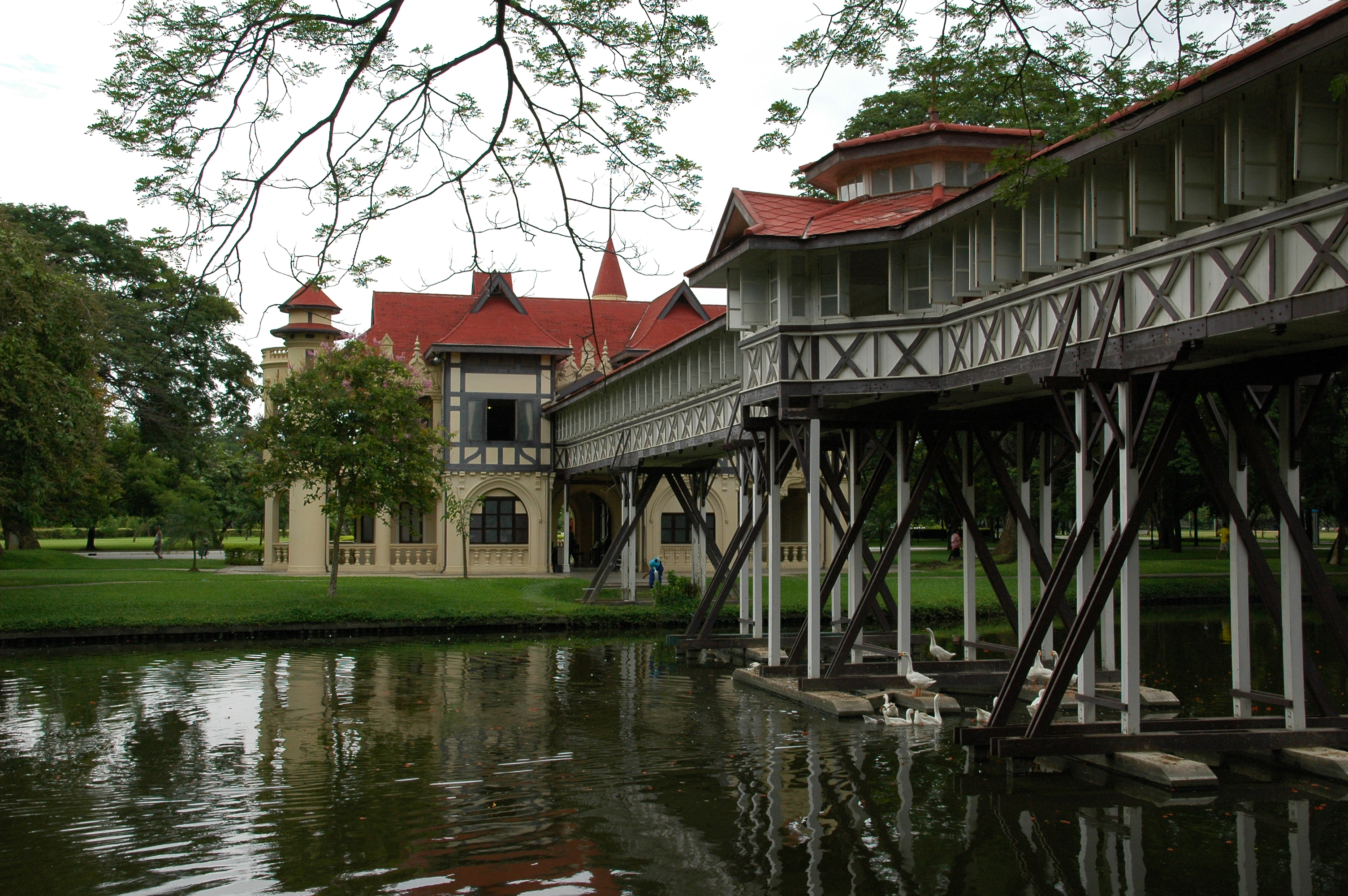 Chaleemongkolasana Residence, Sanam Chan, Nakhon Pathom, Thailand